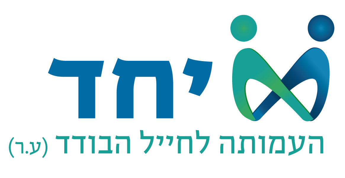 The logo of Yachad – Organization for Lone Soldier in Israel